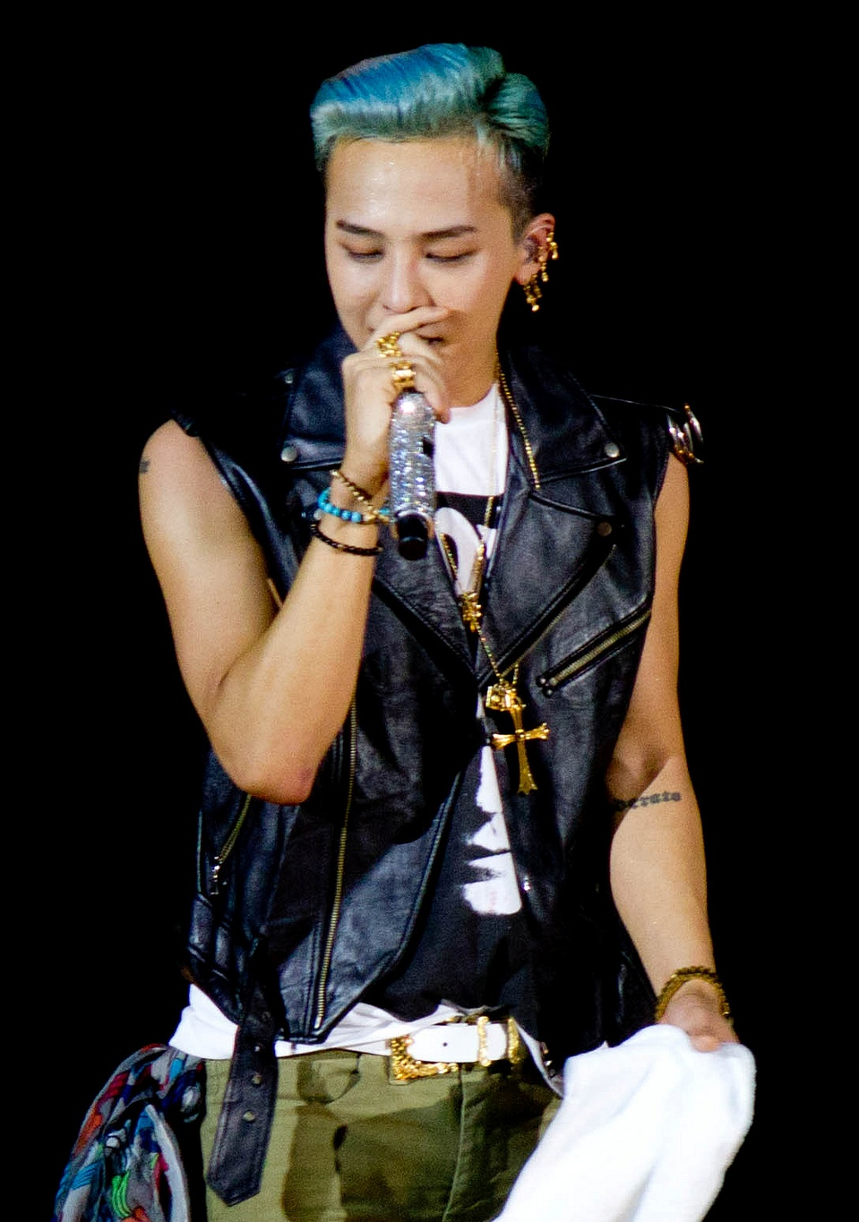 G-Dragon performing on Alive World tour